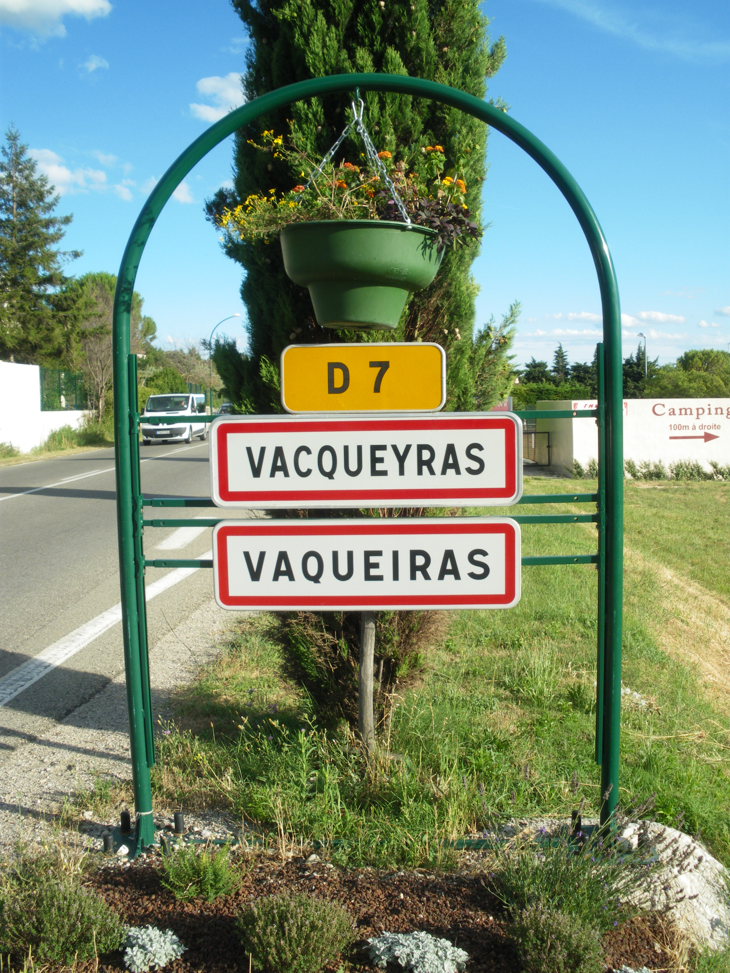 Entrance sign to Vacqueyras, showing a double French/Provençal toponym.